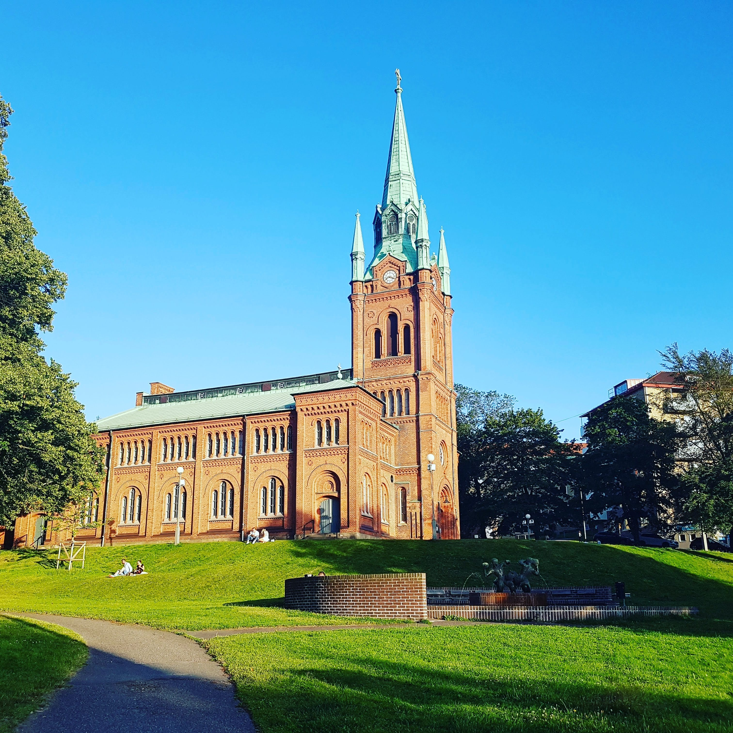 Redbergsplatsen St Pauli kyrka